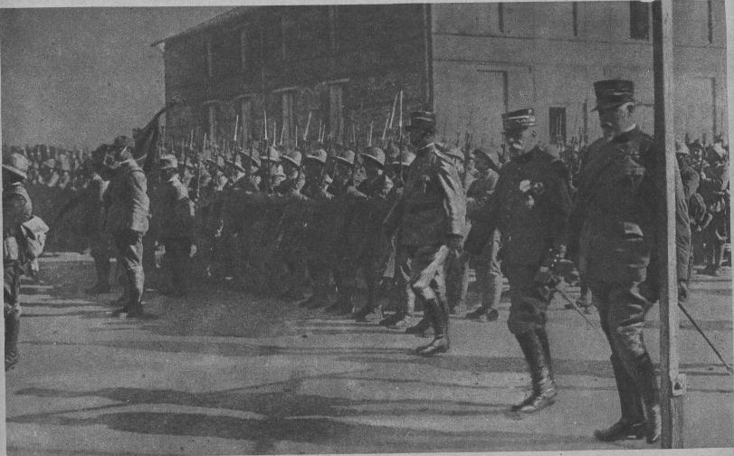 italiens, Sarrail, Petitti di Roreto, Salonique